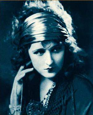 Publicity photo of Ruth Clifford from Stars of the Photoplay. Ruth Clifford, when just a high school girl in Rhode Island, had a tryout in pictures. Later her family went to California and she continued to work in pictures. She made her debut as a leading woman in Universal pictures. Some of the pictures in which she appeared are "Daughters of the Rich," "Abraham Lincoln," and "Ponjola." She was born in Pawtucket, R. I., February 17, 1900, and educated at St. Mary's Seminary, Bayview, R. I. She is five feet, four and one-half inches tall, weighs 124 pounds, and has blonde hair and blue eyes.